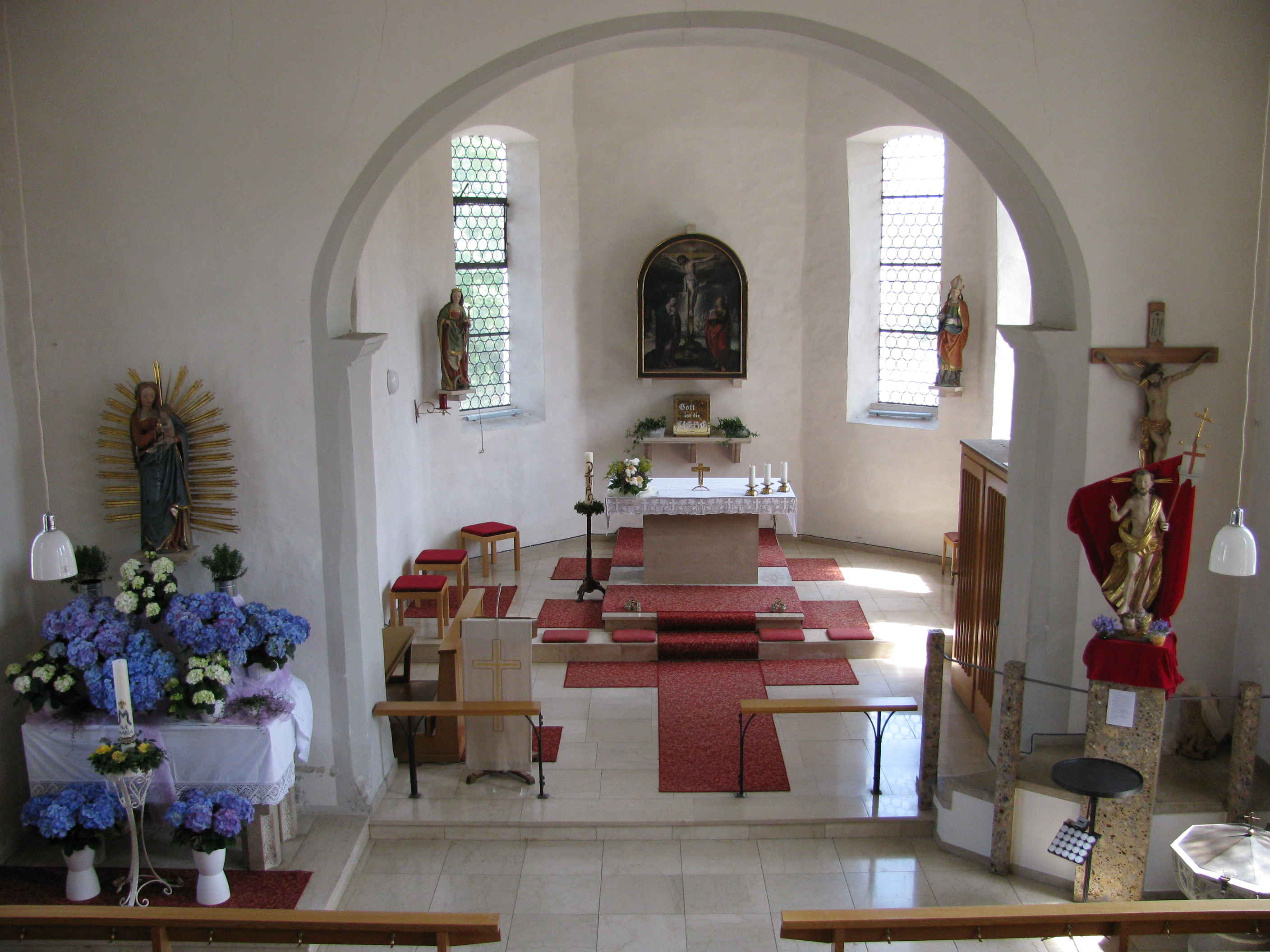 Germany - Baden-Württemberg - Bodenseekreis - Neukirch - Goppertsweiler: cath. St. Martinus-church